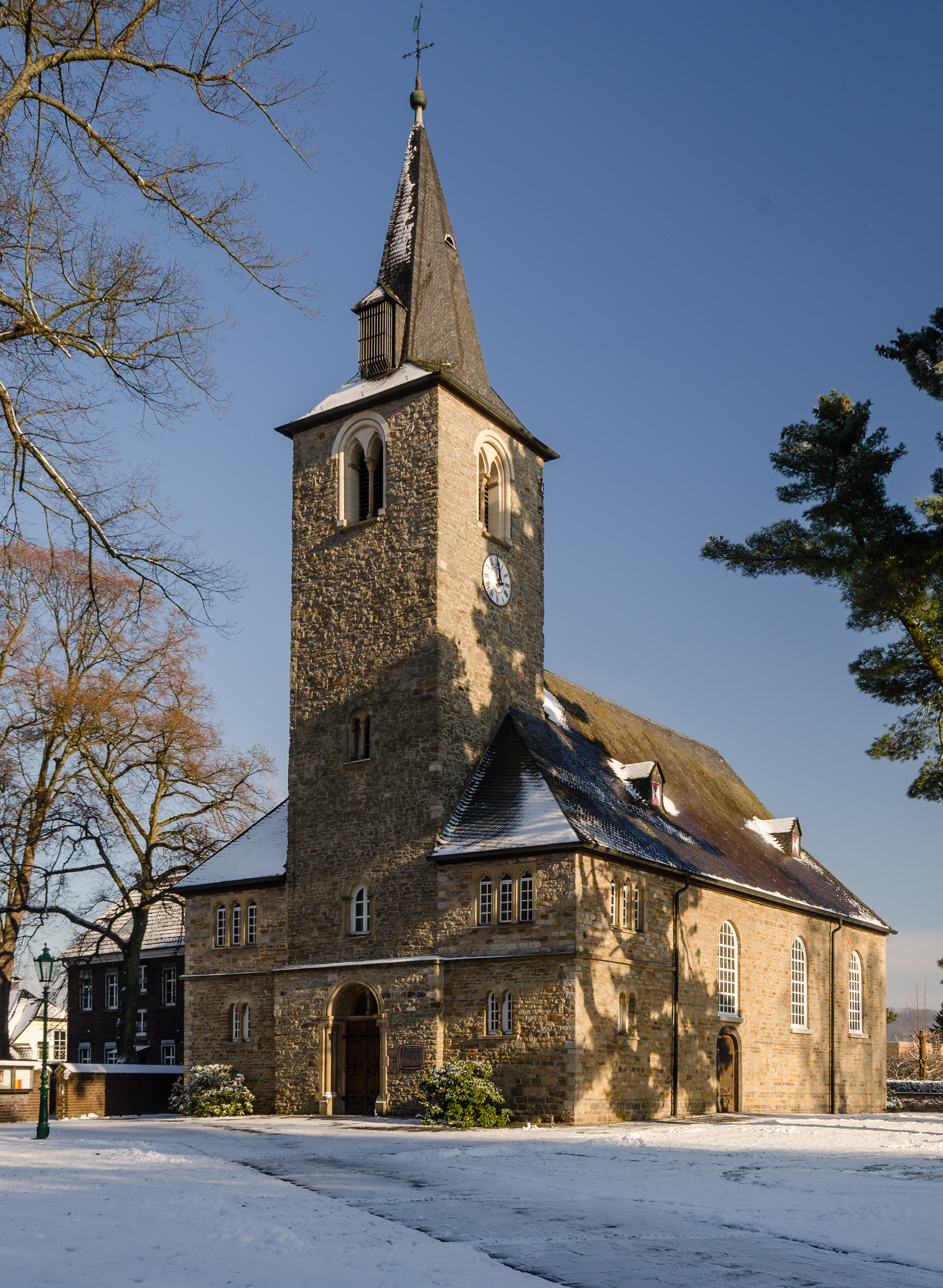 St.Laurentius church in Mintard (Mülheim an der Ruhr)